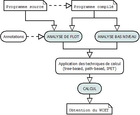 Composants de l'analyse WCET